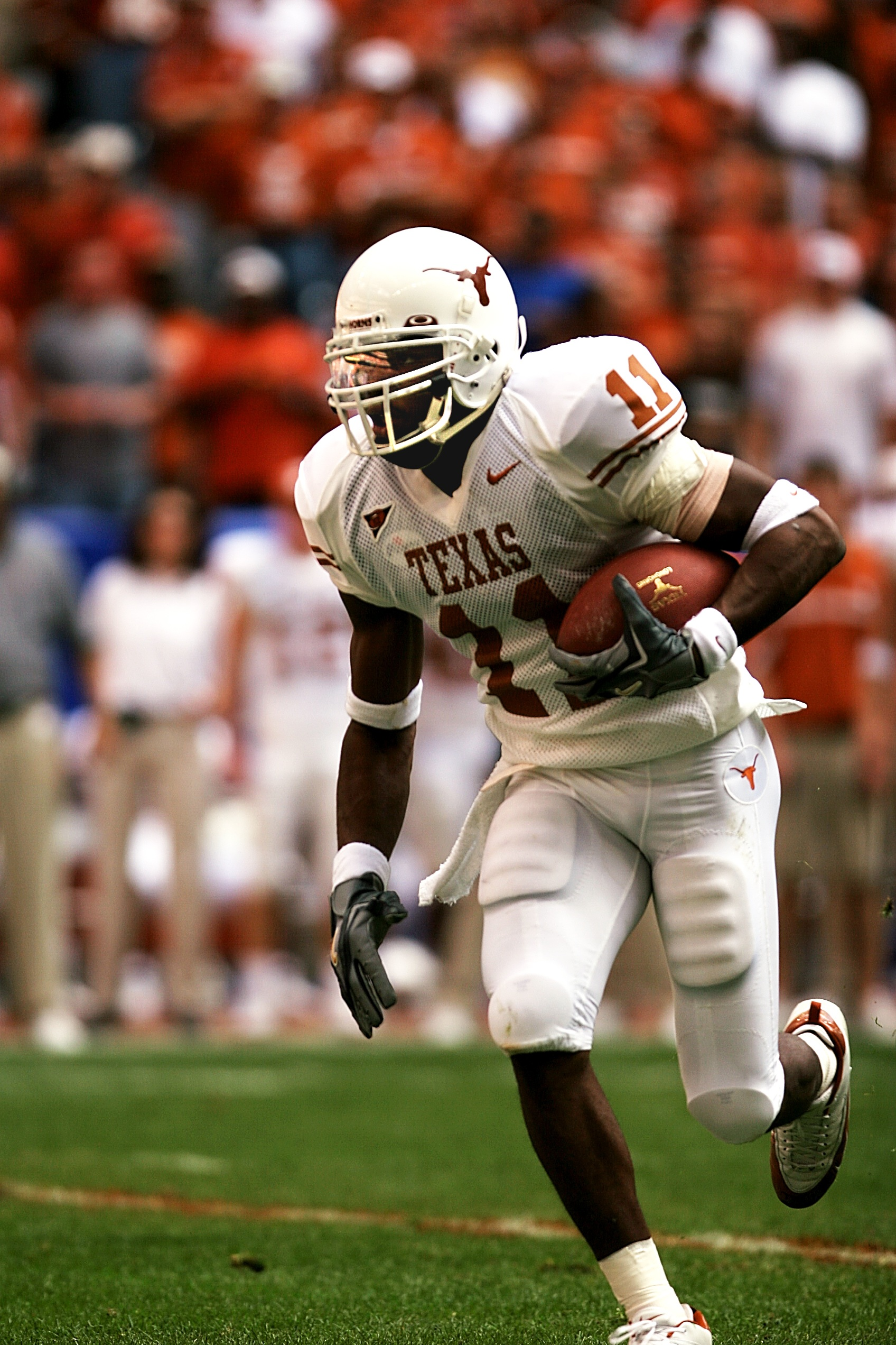 Ramonce Taylor in 2005, during his time at Texas